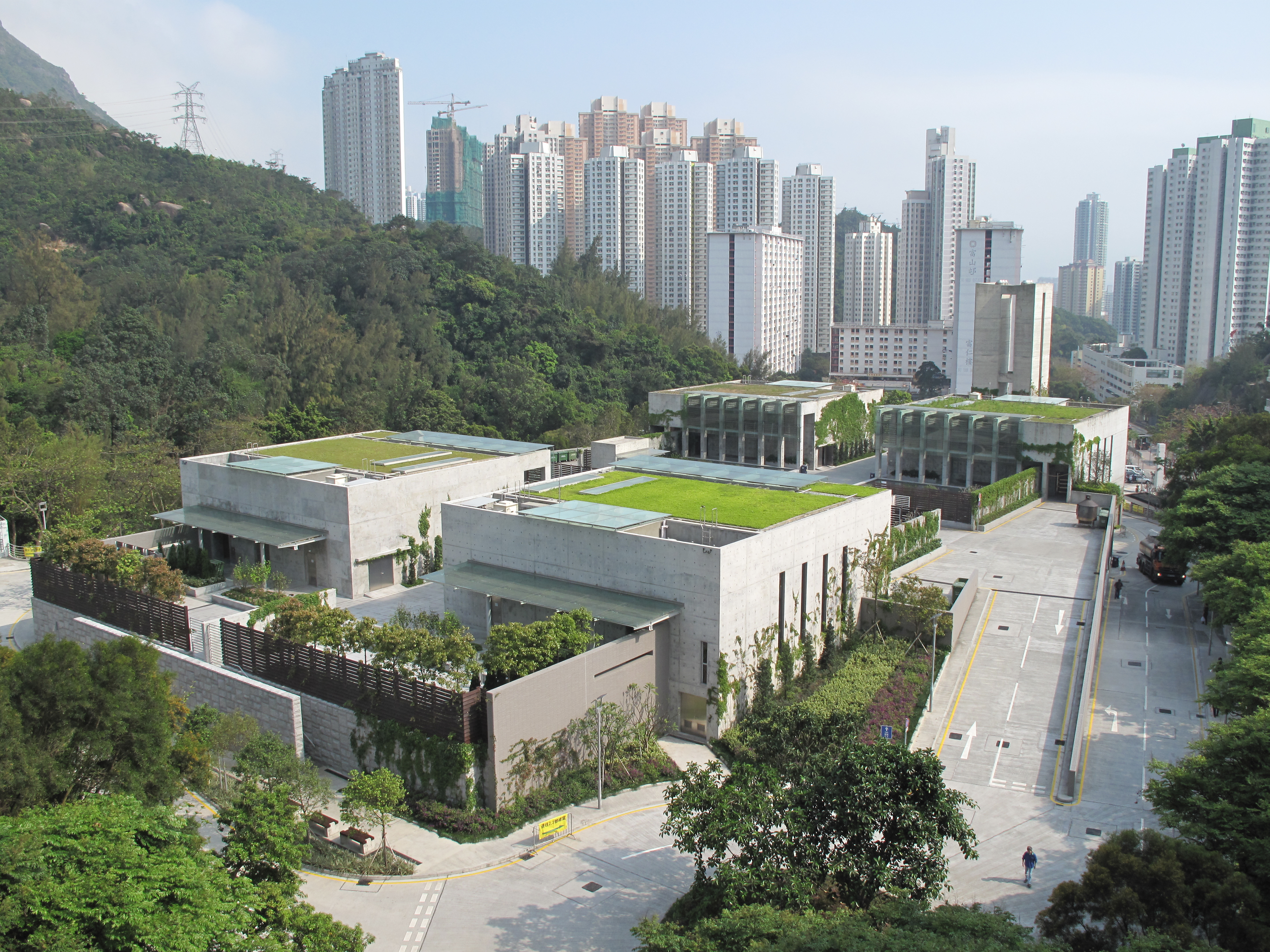 Photo of Diamond Hill Crematorium